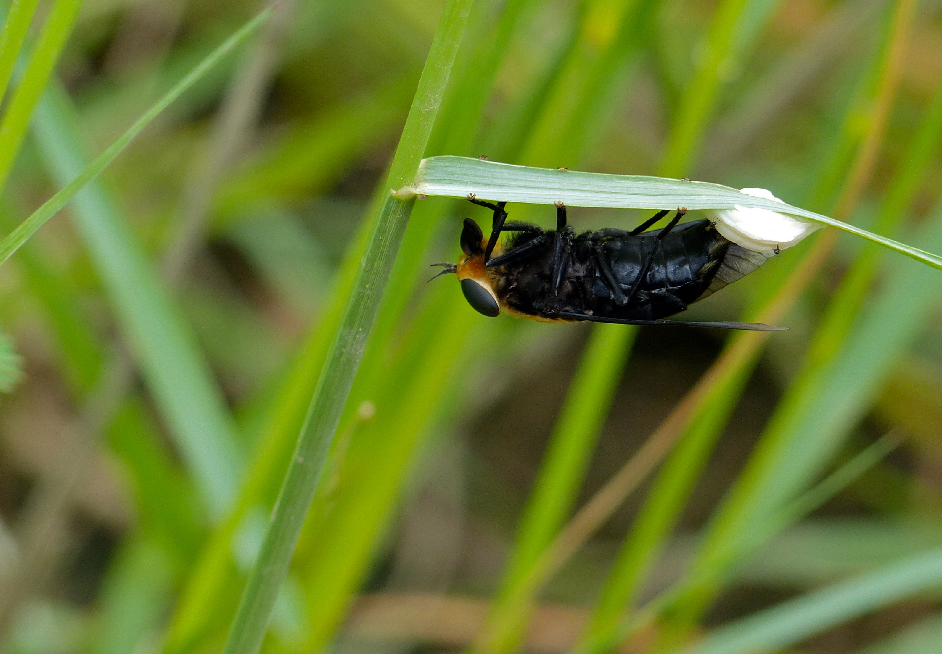 Maroela loop, North of Skukuza, Kruger NP, SOUTH AFRICA